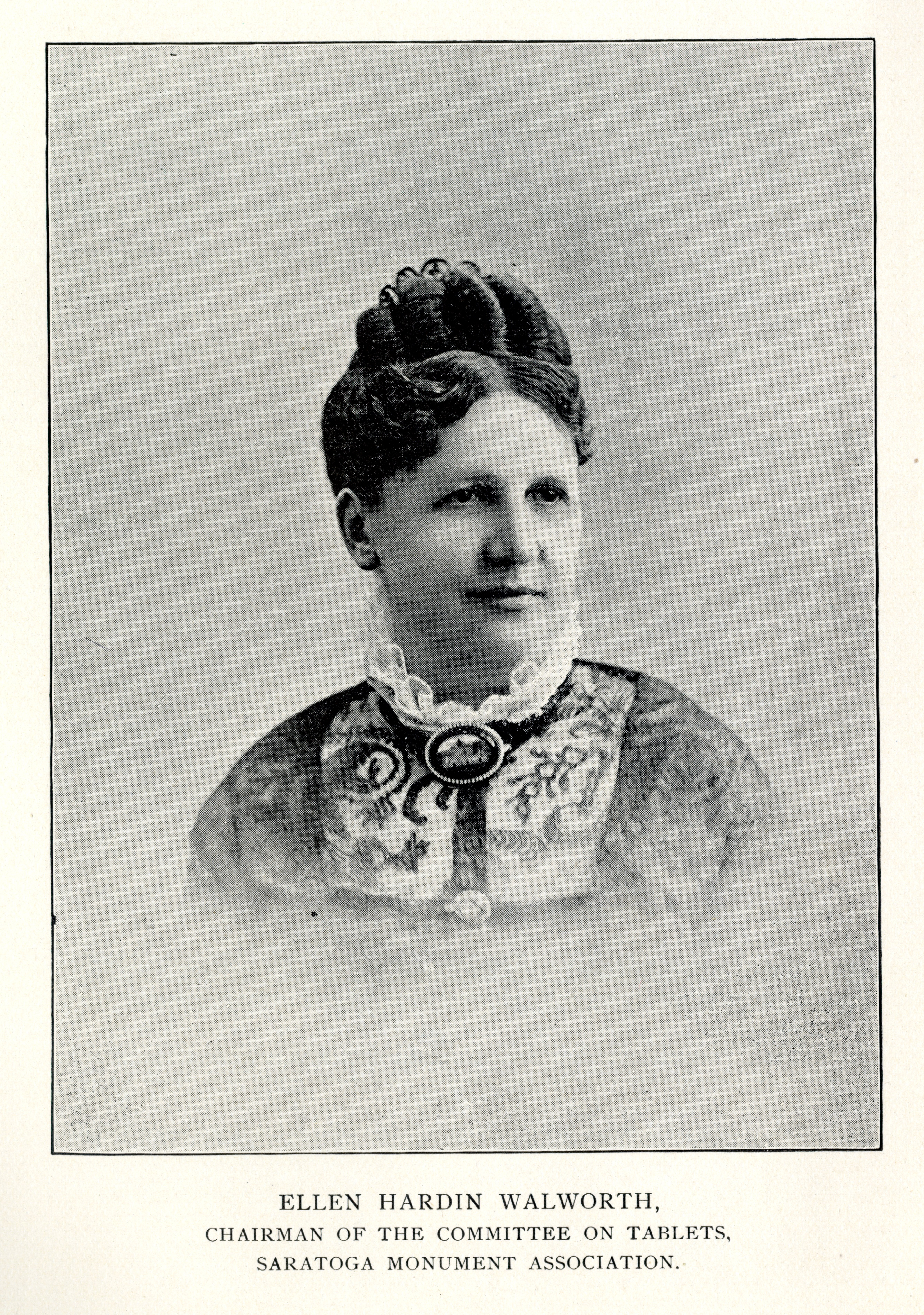 Ellen Hardin Walworth